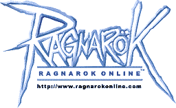 Official Ragnarok Online Icon